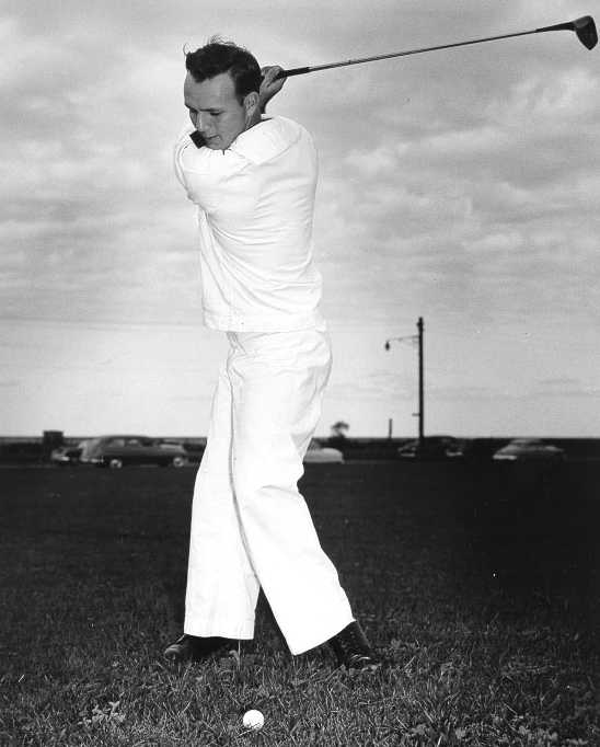 Arnold Palmer enlisted in the United States Coast Guard in 1950 as a Yeoman and continued to serve until 1953. Though a Yeoman, Palmer participated in many matches as the Coast Guard allowed him to continue to play golf. Here, he is playing in the 1953 North and South Amateur Golf Championship held at Pinehurst Country Club, Pinehurst, N.C.